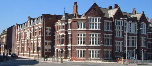 LJMU John Foster Building